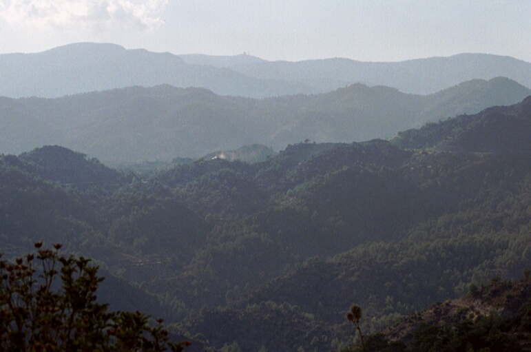 The Troödos Mountains, Cyprus.